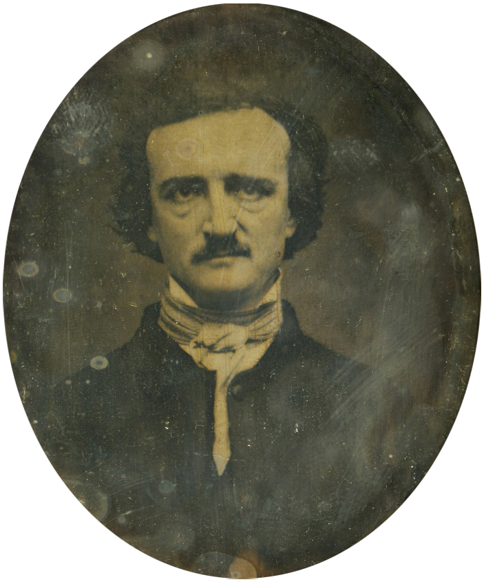 Daguerreotype of Edgar Allan Poe first published 1880. Image released in PD for expiration date.